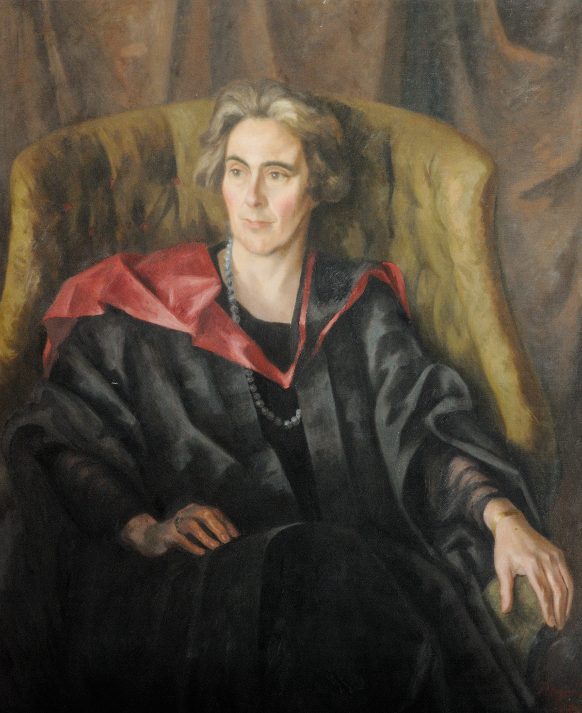 Fry, Roger Eliot; Margery Fry, Principal (1927-1931); Somerville College, University of Oxford